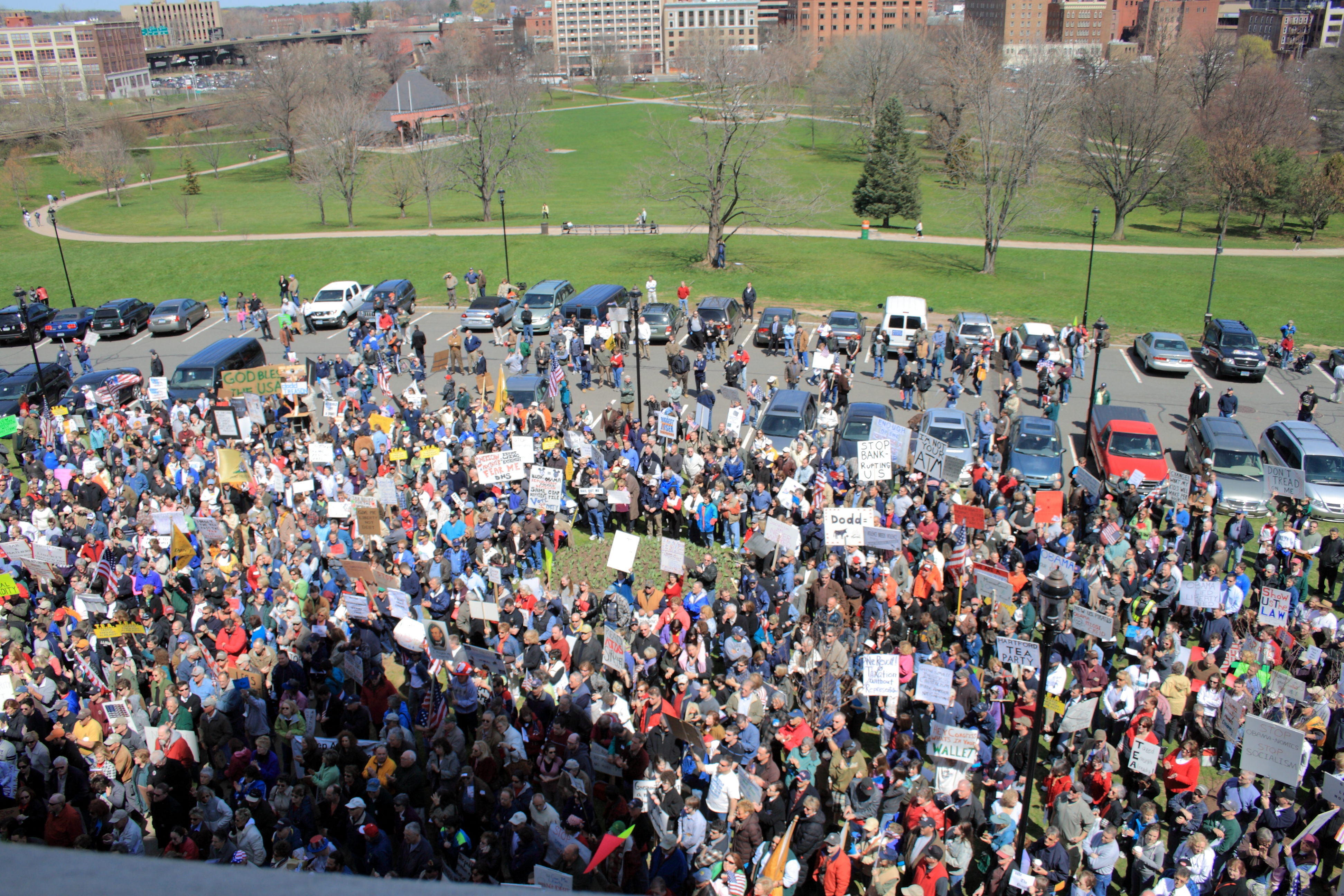 Tea Party protest at the Connecticut State Capitol in Hartford, Connecticut. The protest was scheduled for noon until 2pm local time; the timestamp of the photo is Coordinated Universal Time (UTC). Organizers reported that the police estimate of attendance was 5000 people. - OpenStreetMap(Info)